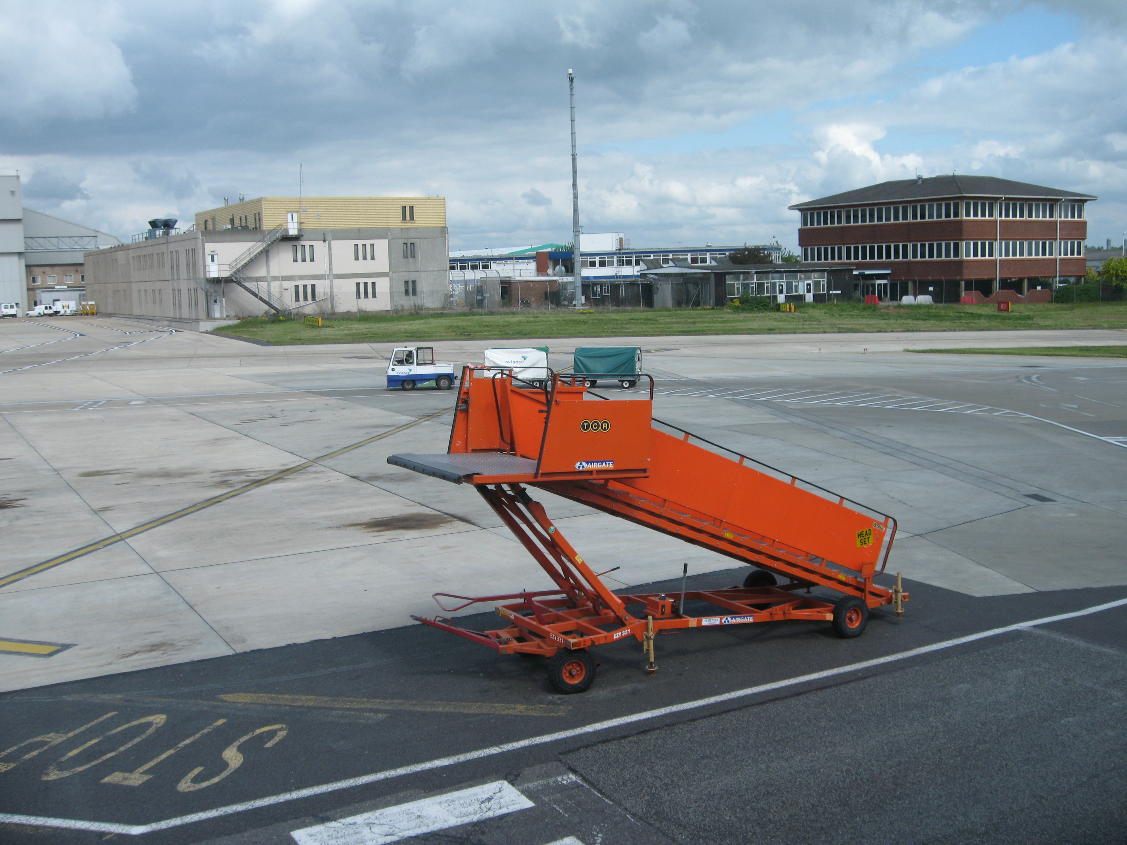 Luton airport buildings.